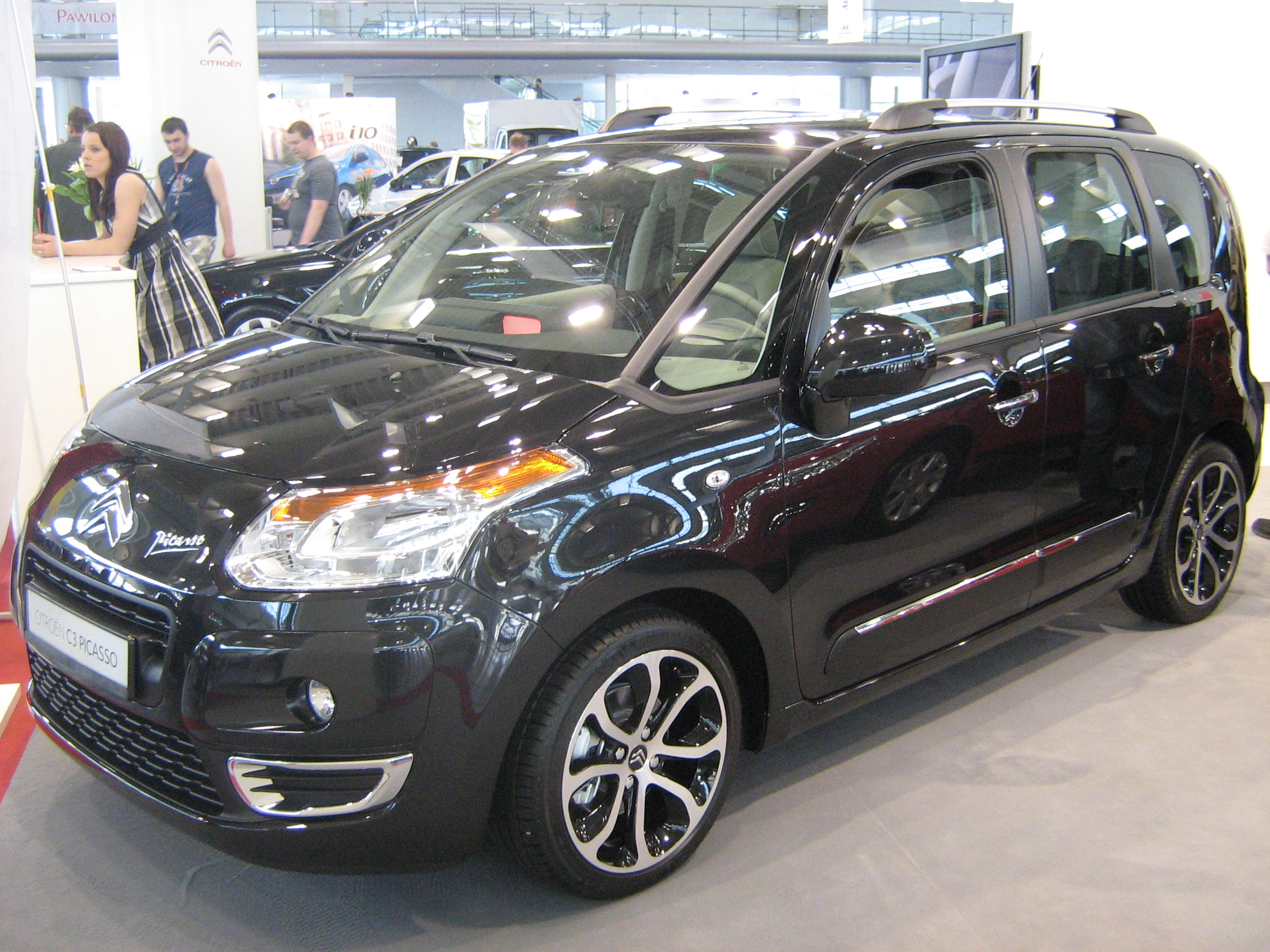 Citroen C3 Picasso - PSM 2009 in Poznan.